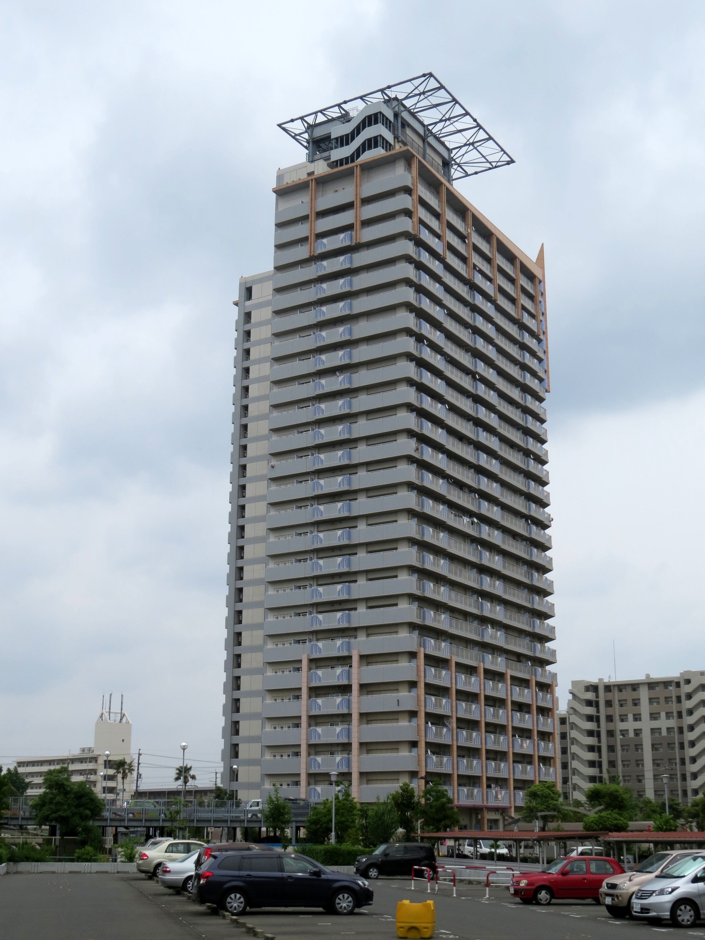 Minato-sō No.1, public housing in Minato-ku, Nagoya, Aichi prefecture, Japan.